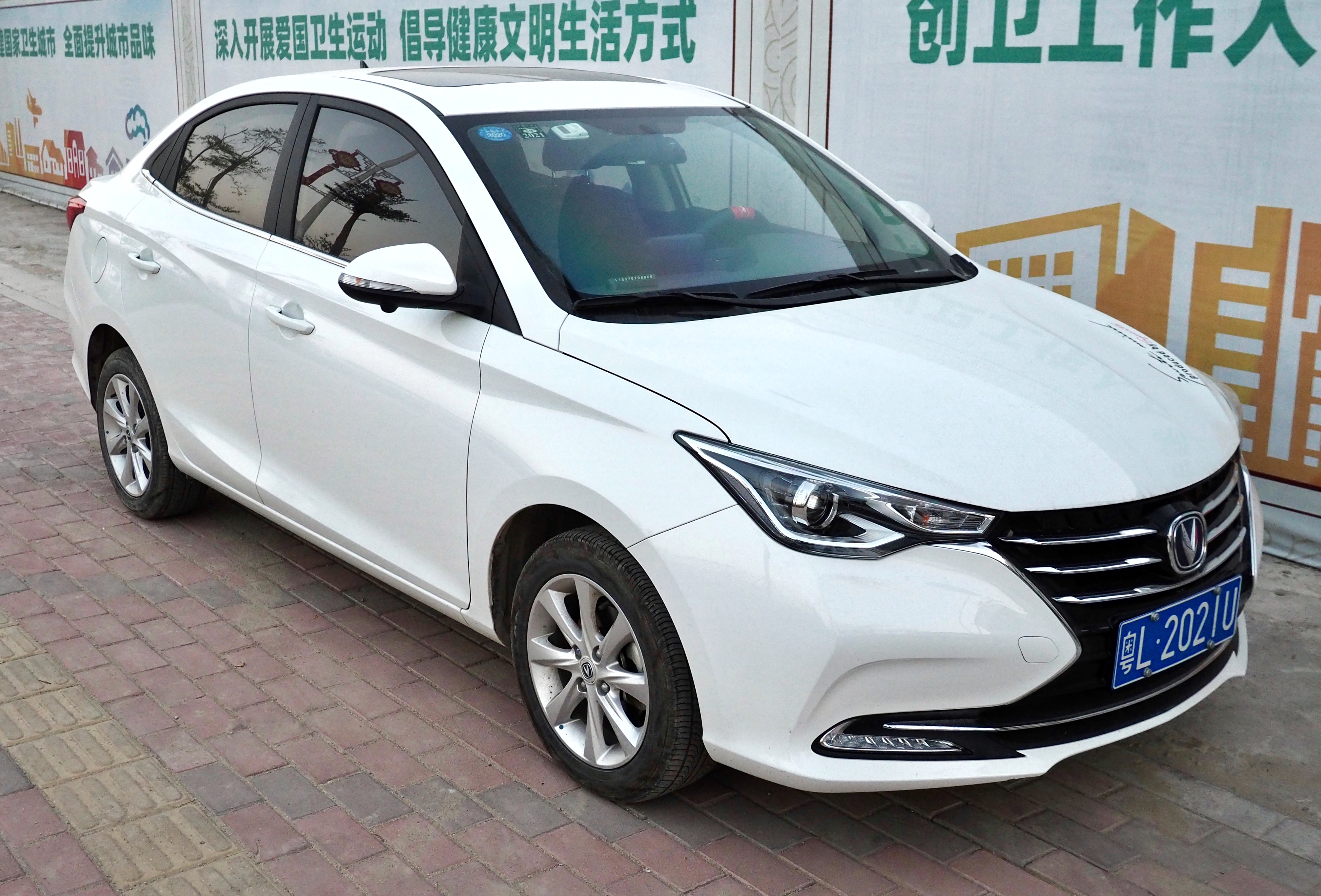 A 2018 Chang'an Alsvin photographed in Shanwei, Guangdong province, China. 中文（中国大陆）: 一辆2018年的长安悅翔，拍摄于中国广东省汕尾市。